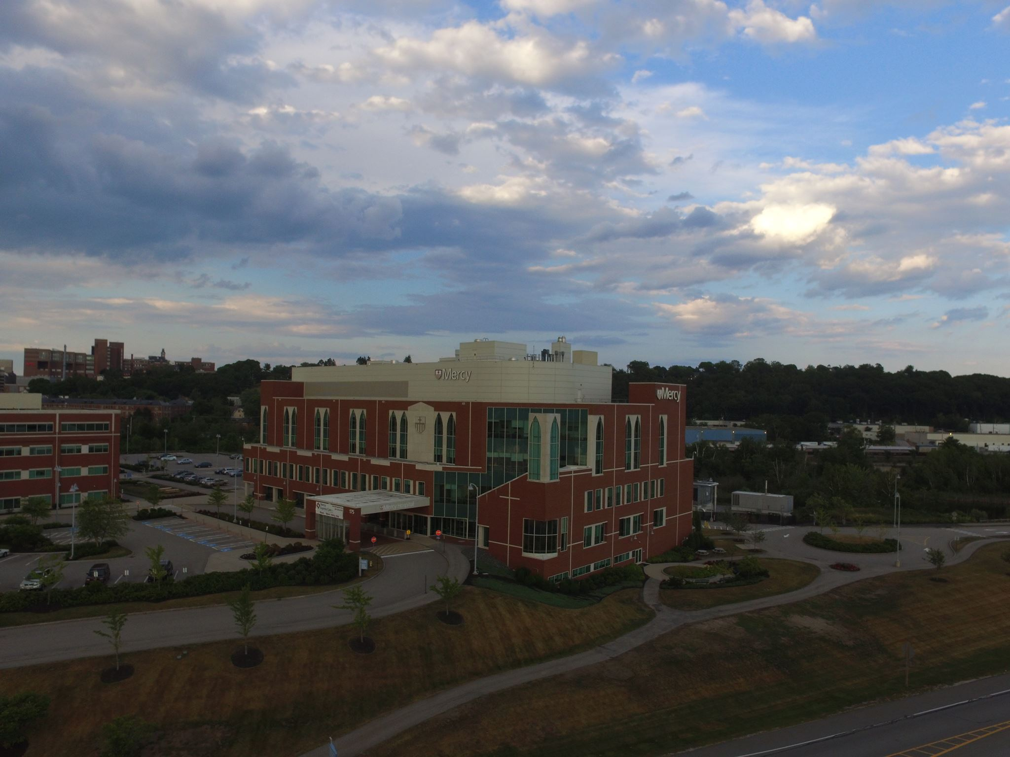 A view from above showing Mercy On The Fore, with Maine Medical Center in the background